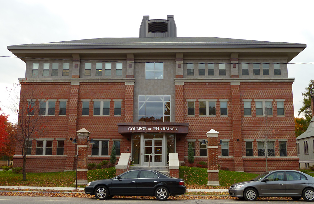 University of New England College of Pharmacy in Portland, Maine.